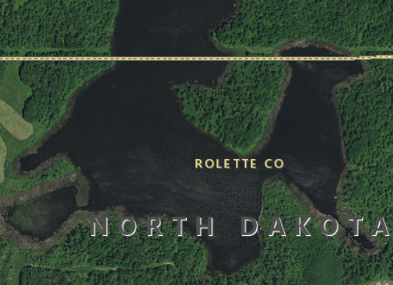 The U.S. portion of the peninsula has a land border with Canada but is not completely surrounded by Canada. Although physical connections by water with it are entirely within the sovereignty of the United States, land access is only possible through Canada. This land exhibits continuity of state territory across territorial waters but, nevertheless, a discontinuity on land. (image by U.S. Geological Survey)